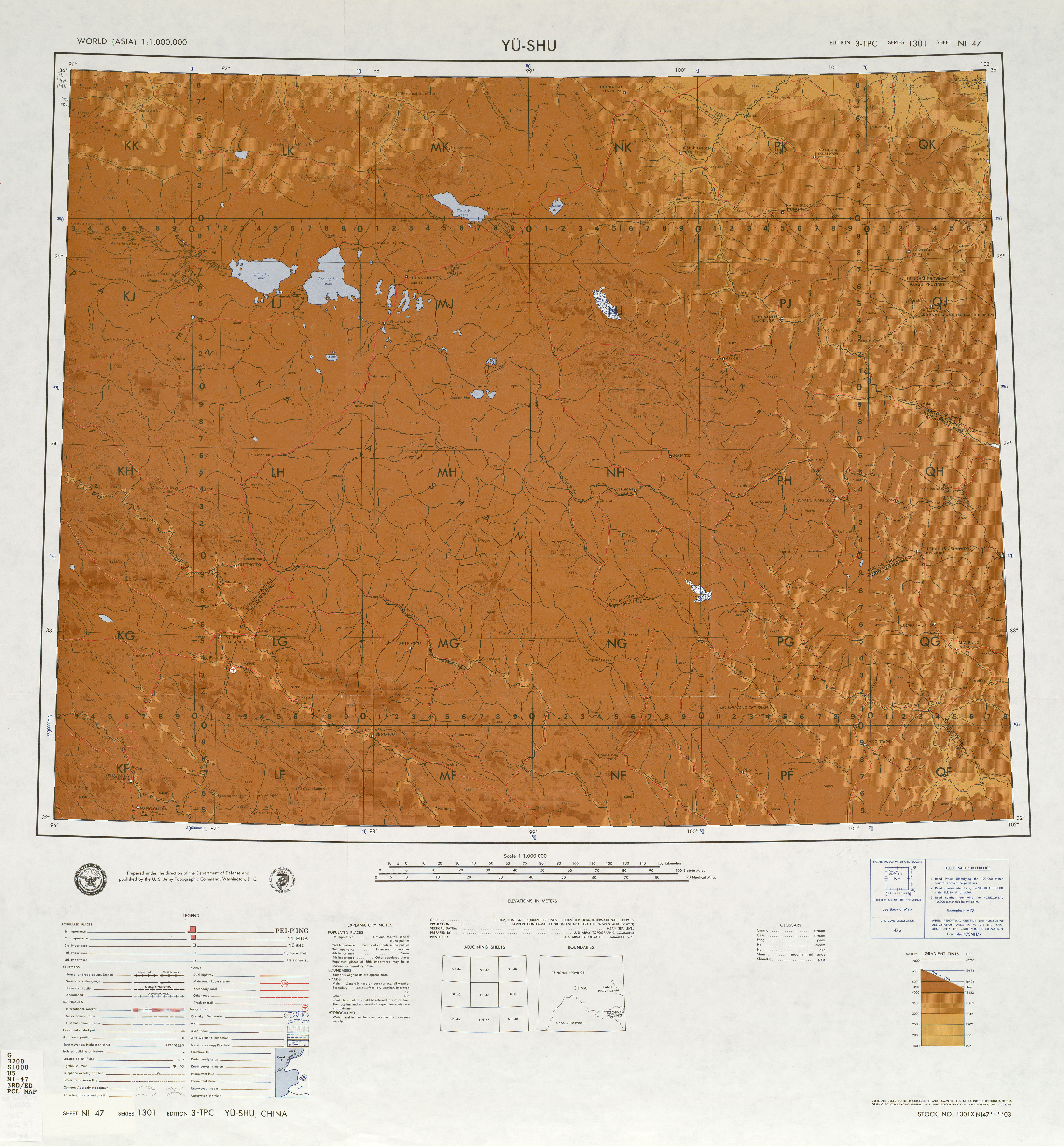 Map from the International Map of the World 1:1,000,000